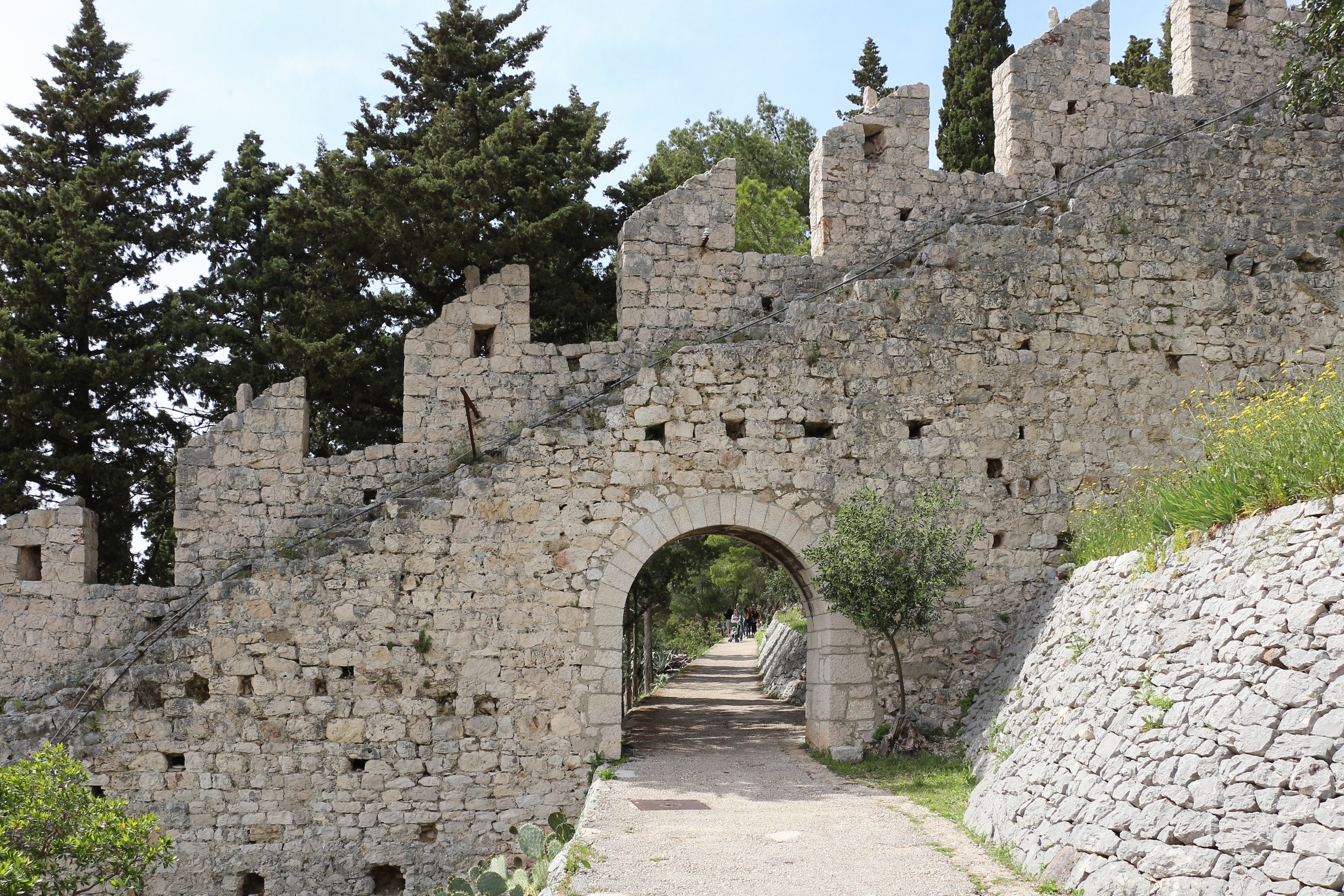 City Walls of Hvar, Croatia